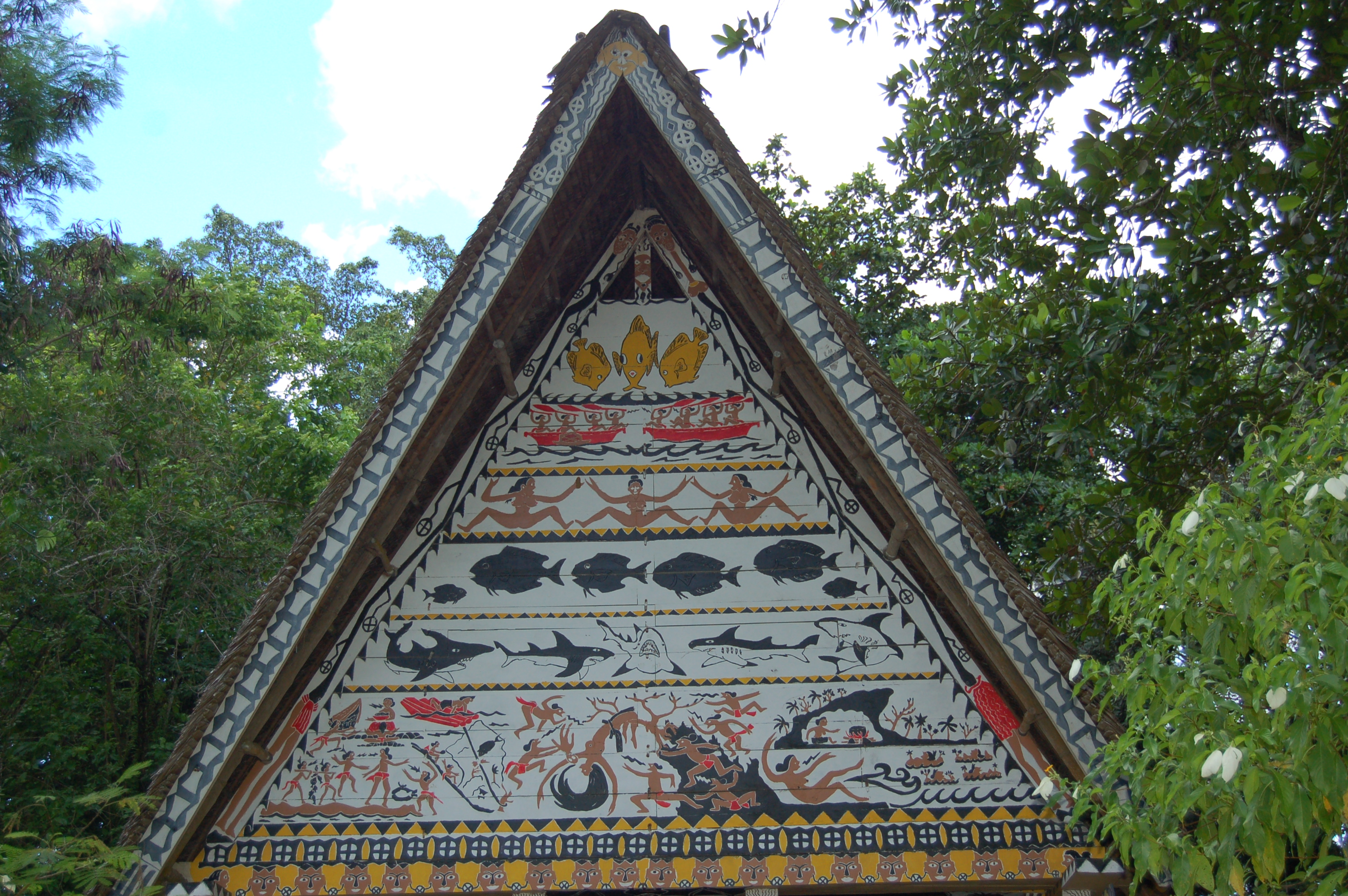 Painted details on a bai at the National Museum of Palau.